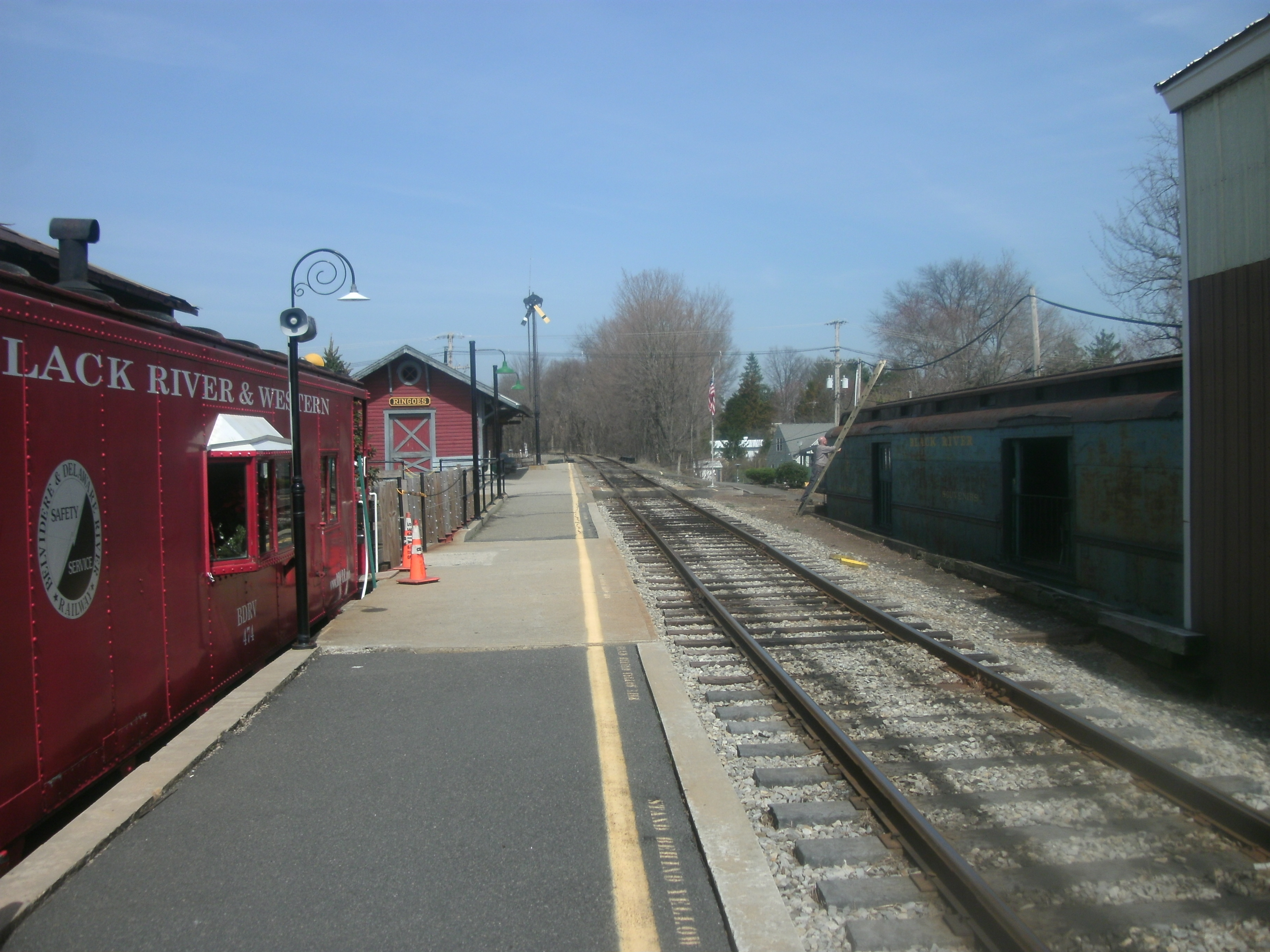 A Black River and Western Railroad caboose and the 1854 station depot at Ringoes, New Jersey. A semaphore signal is visible near the station.